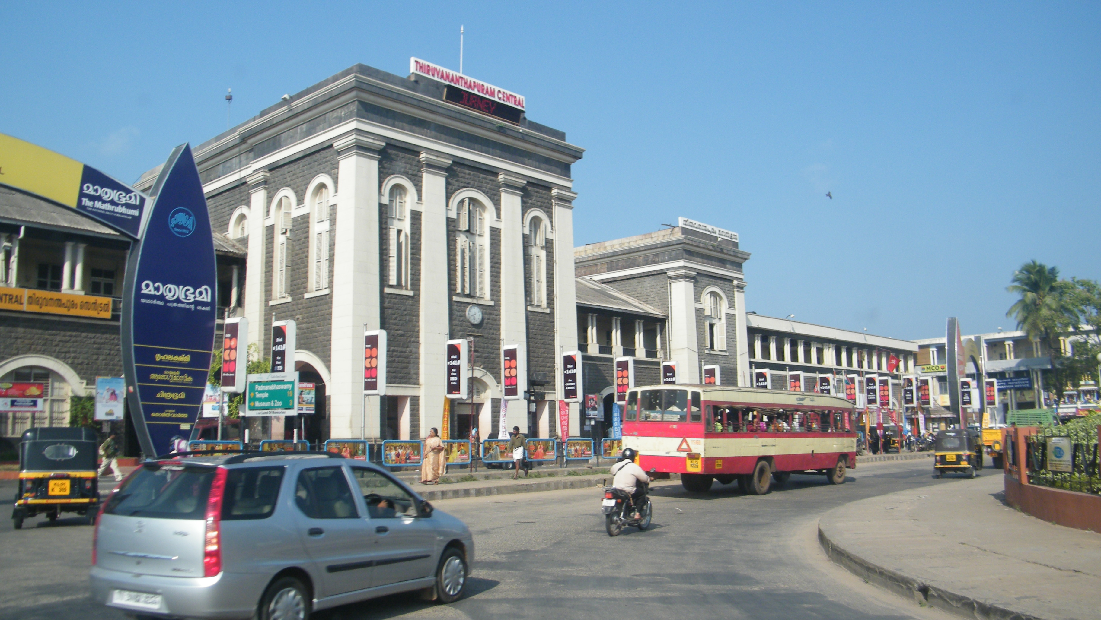 A view of the Central station of Thiruvananthapuram.